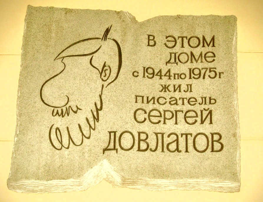 Memorial plaque on the Dovlatov's house in Saint-Petersburg (Russia) "Writer Sergei Dovlatov lived in this house 1944-1975"